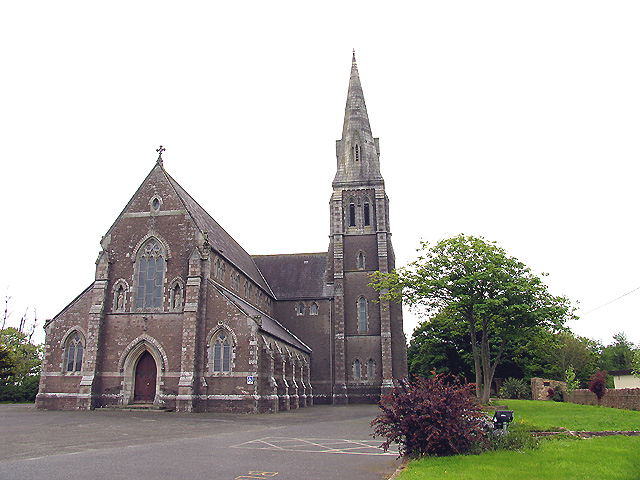 Church of Our Lady of the Assumption and St. Laurence O'Toole in Rathangan, County Wexford.